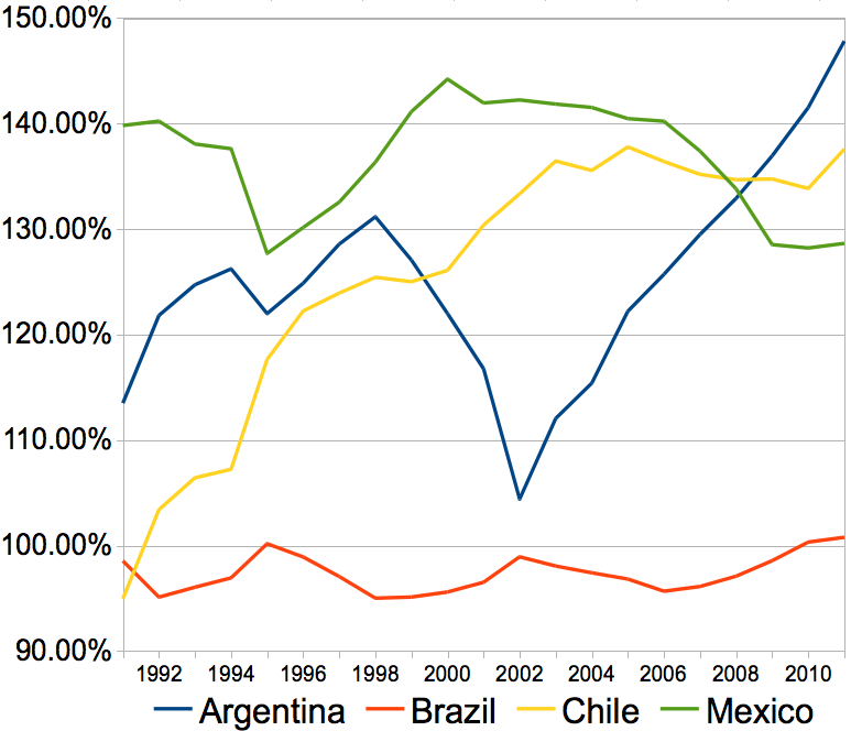 GDP PPP per capita of Argentina, Brazil, Chile and Mexico (source), as a percentage of the average GDP PPP per capita for Latin America (source) in a given year.